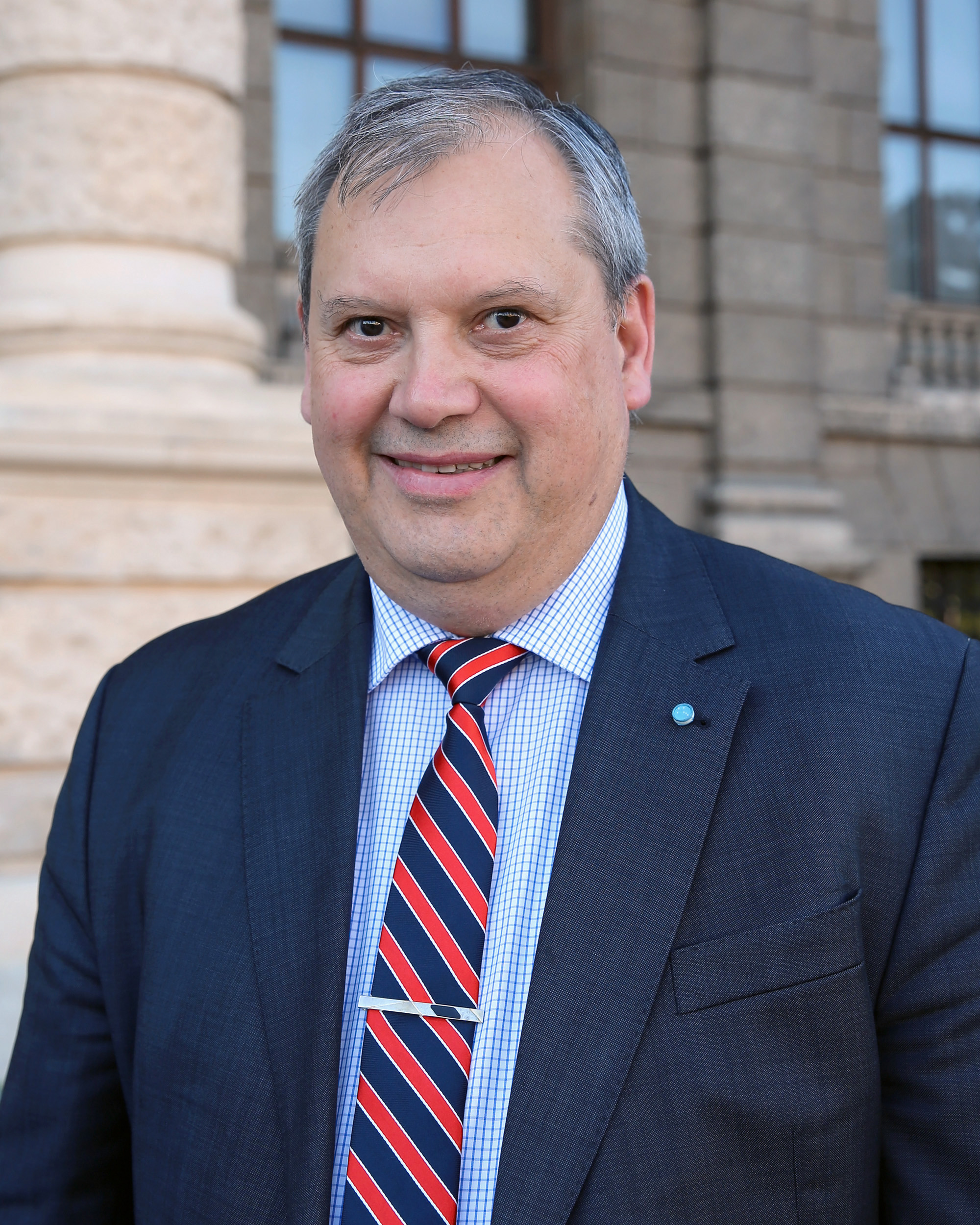 Women in Space: The Next 50 Years (Celebrating 50 Years of Women in Space) - public panel and discussion on invitation of UNOOSA with Roberta Bondar, Janet L. Kavandi, Dumitru-Dorin Prunariu, Chiaki Mukai and Liu Yang (Naturhistorisches Museum in Vienna, Austria).